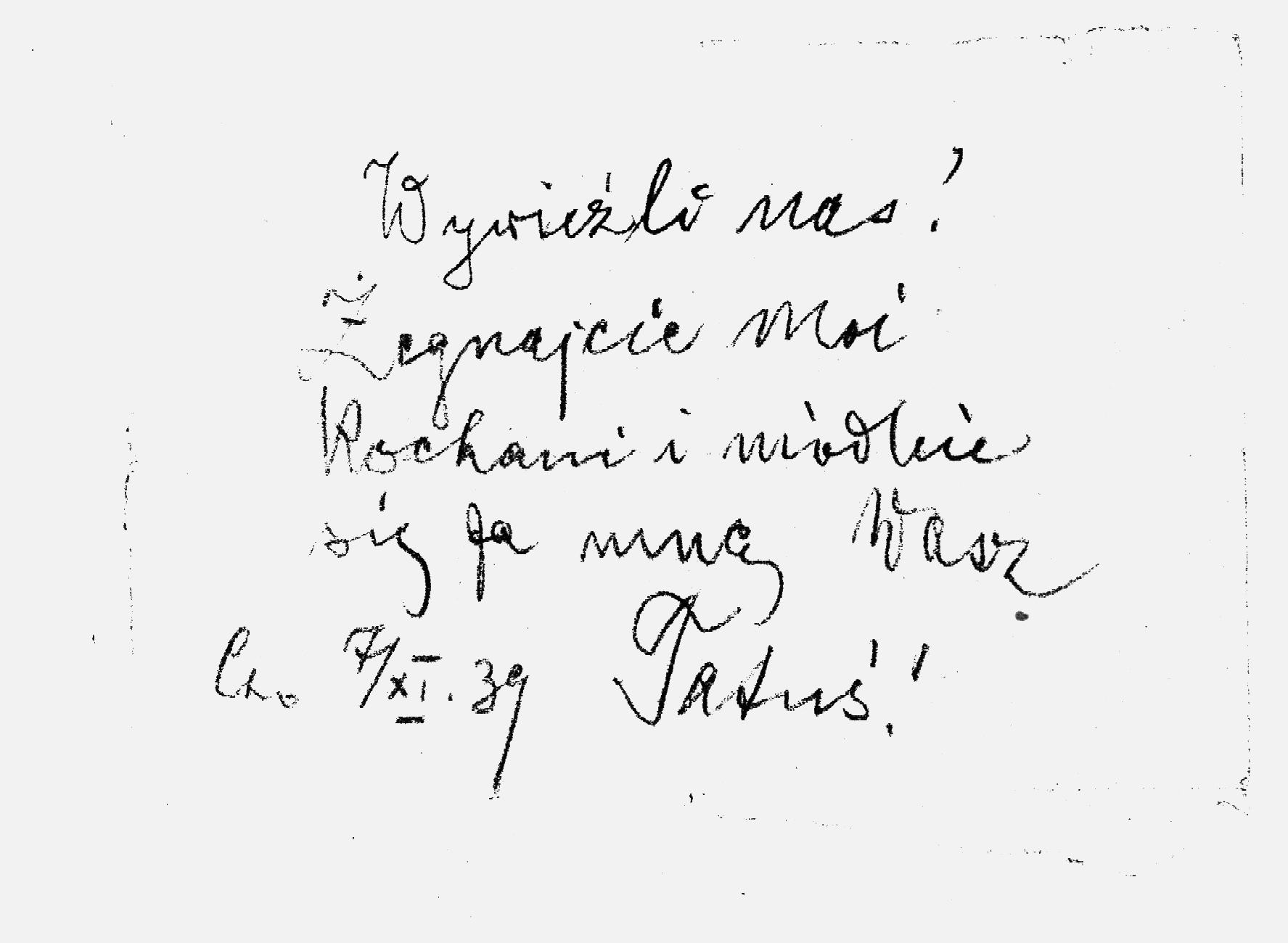 Wladislaw Kaja letter to his family